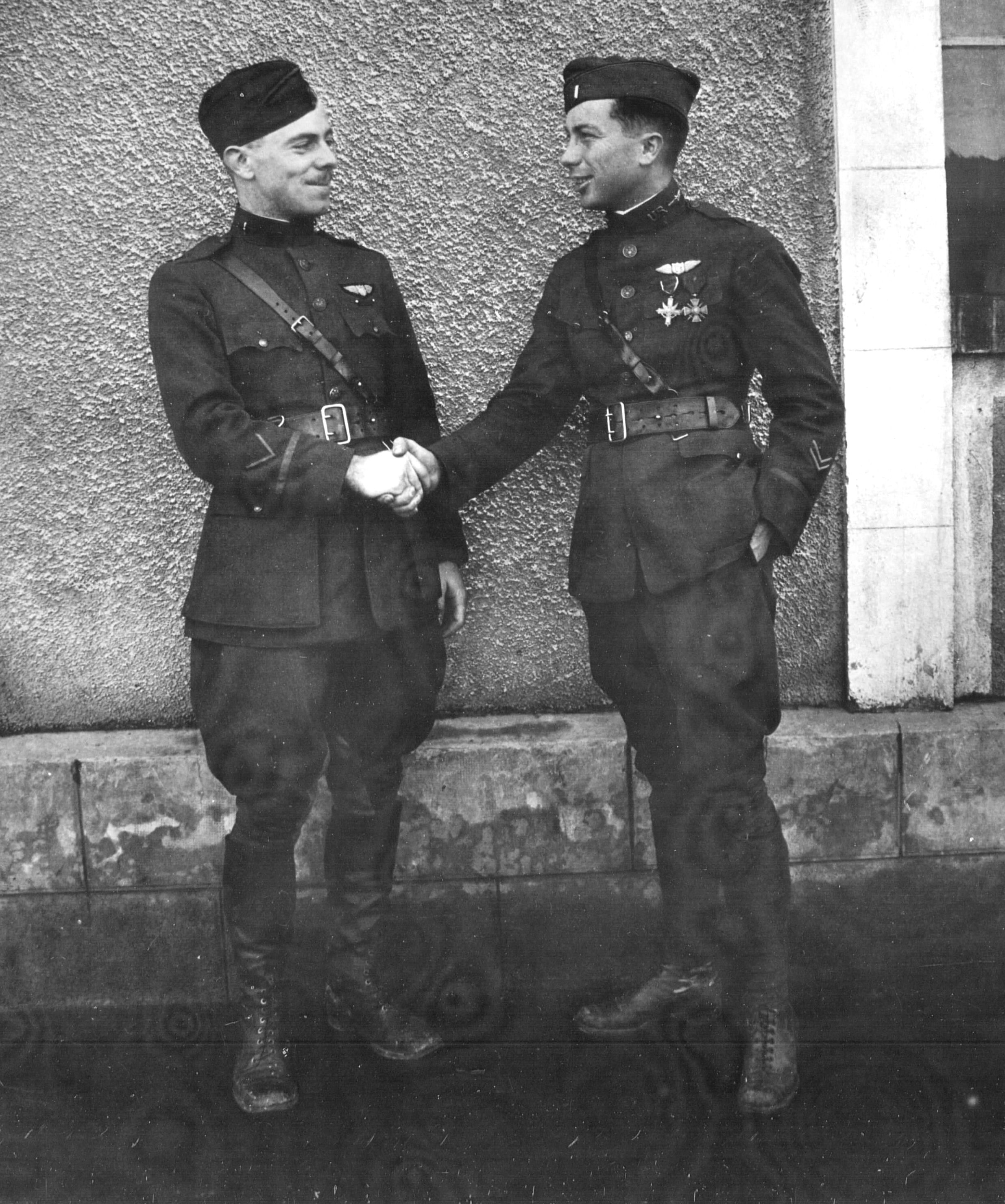 Lieutenant William Portwood Erwin, flying ace, 1st Aero Squadron (Observation) with Captain A. J. Coyle, Commander, First Army Observation Group, Gondreville-sur-Moselle Aerodrome, France, 1918